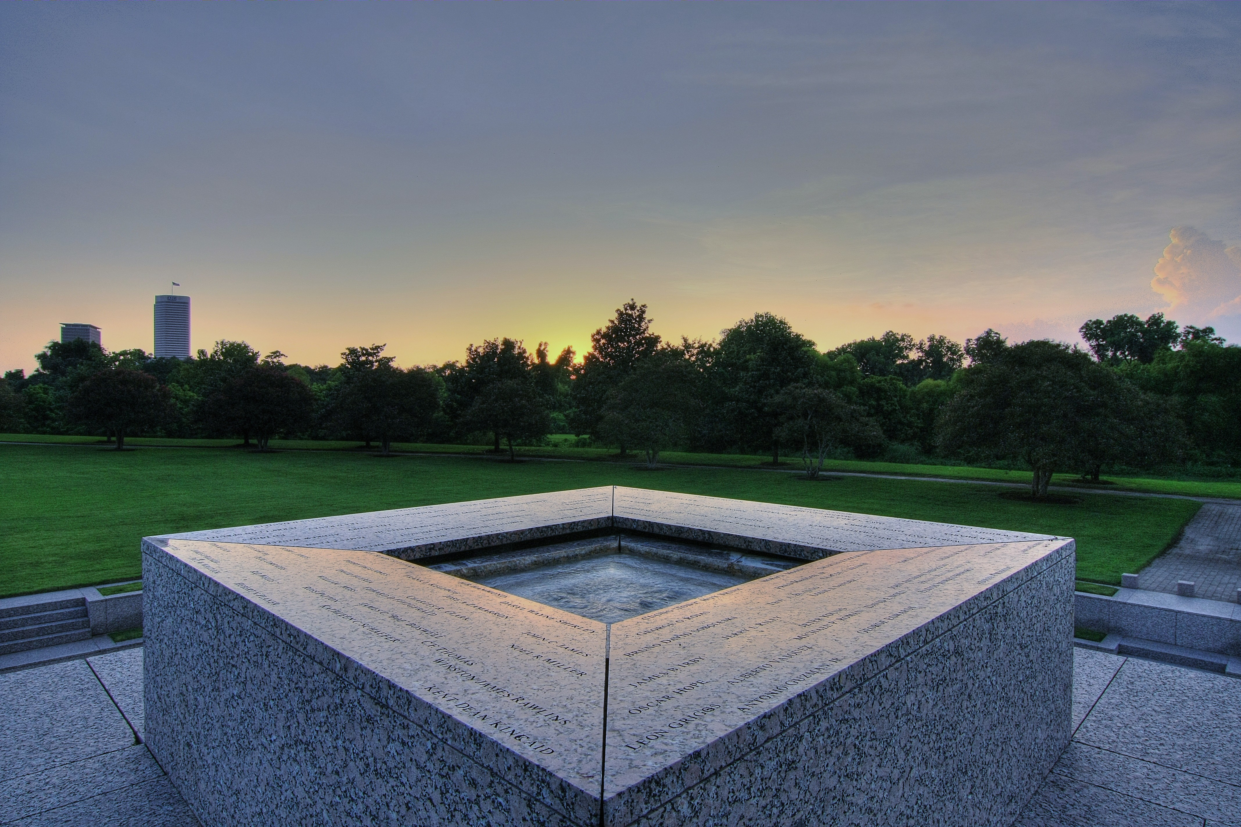 This is part of a collection of pictures from the Houston Police Officer's Memorial. This one is an HDR of the top of the memorial looking to the north. The names of the fallen officers are etched into the granite.